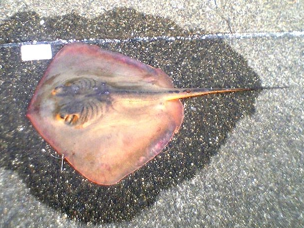 Red stingray (Dasyatis akajei)